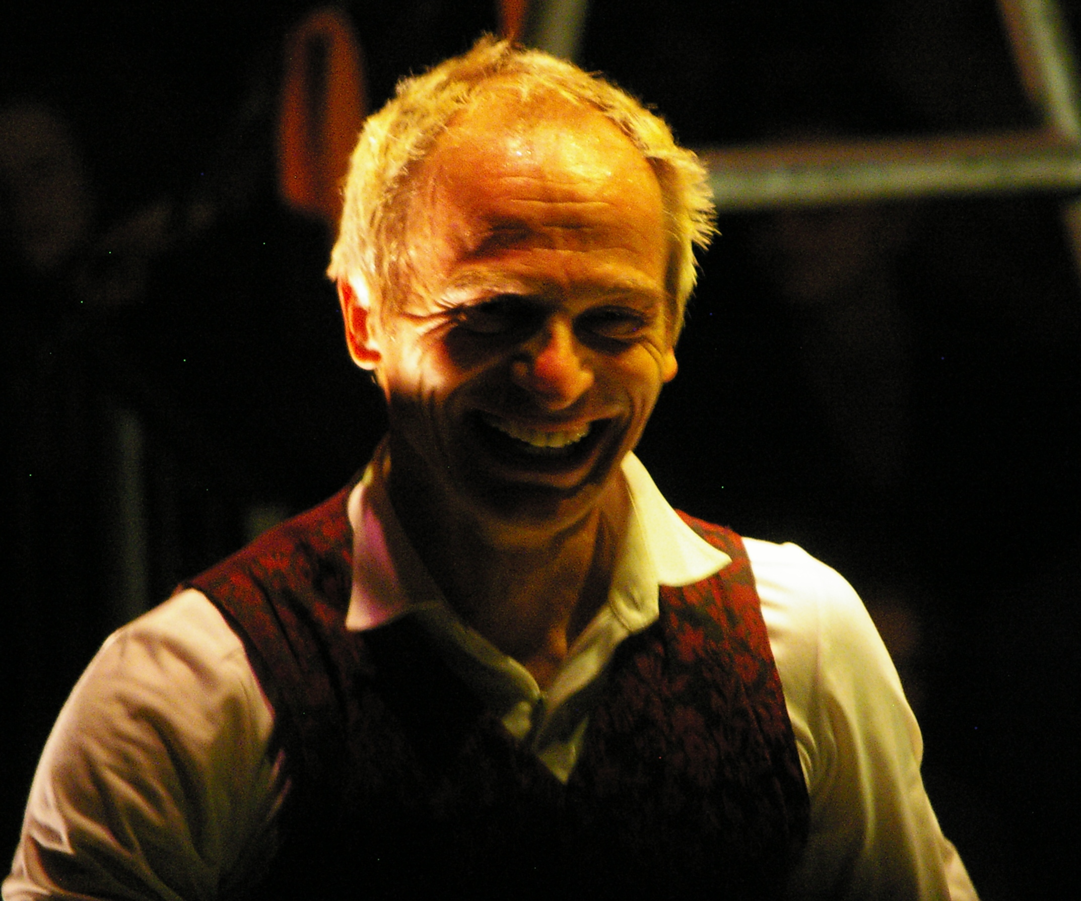 swiss circus artist